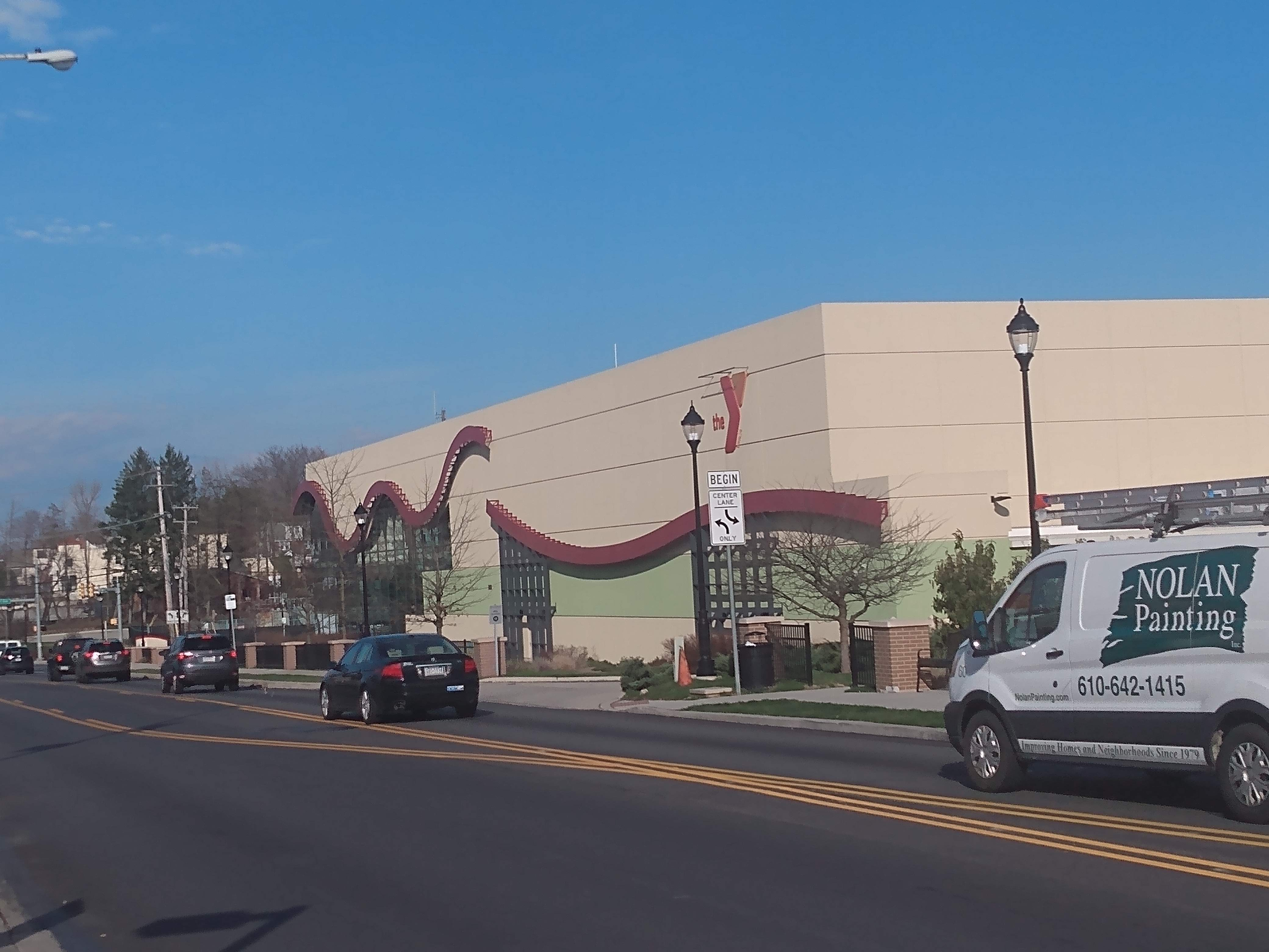 Haverford YMCA on Eagle Rd.